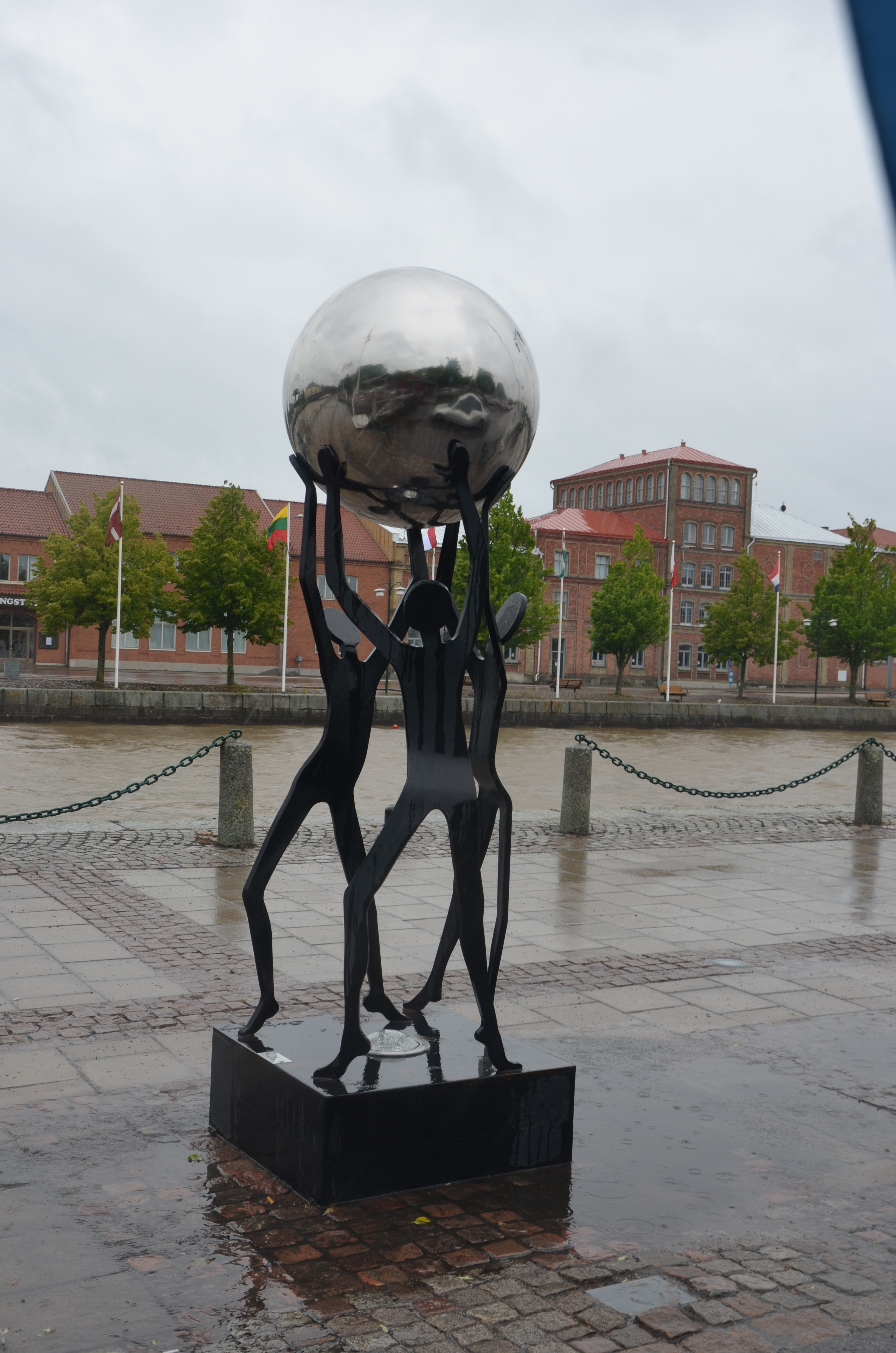 Klotet, by Barbro Skantze, 2002, Lidköping, Sweden